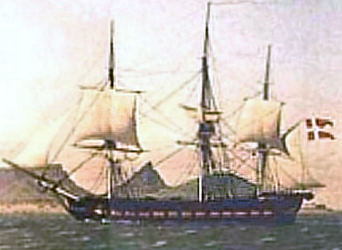 Painting of the Corvette Galathea 1833-1861'